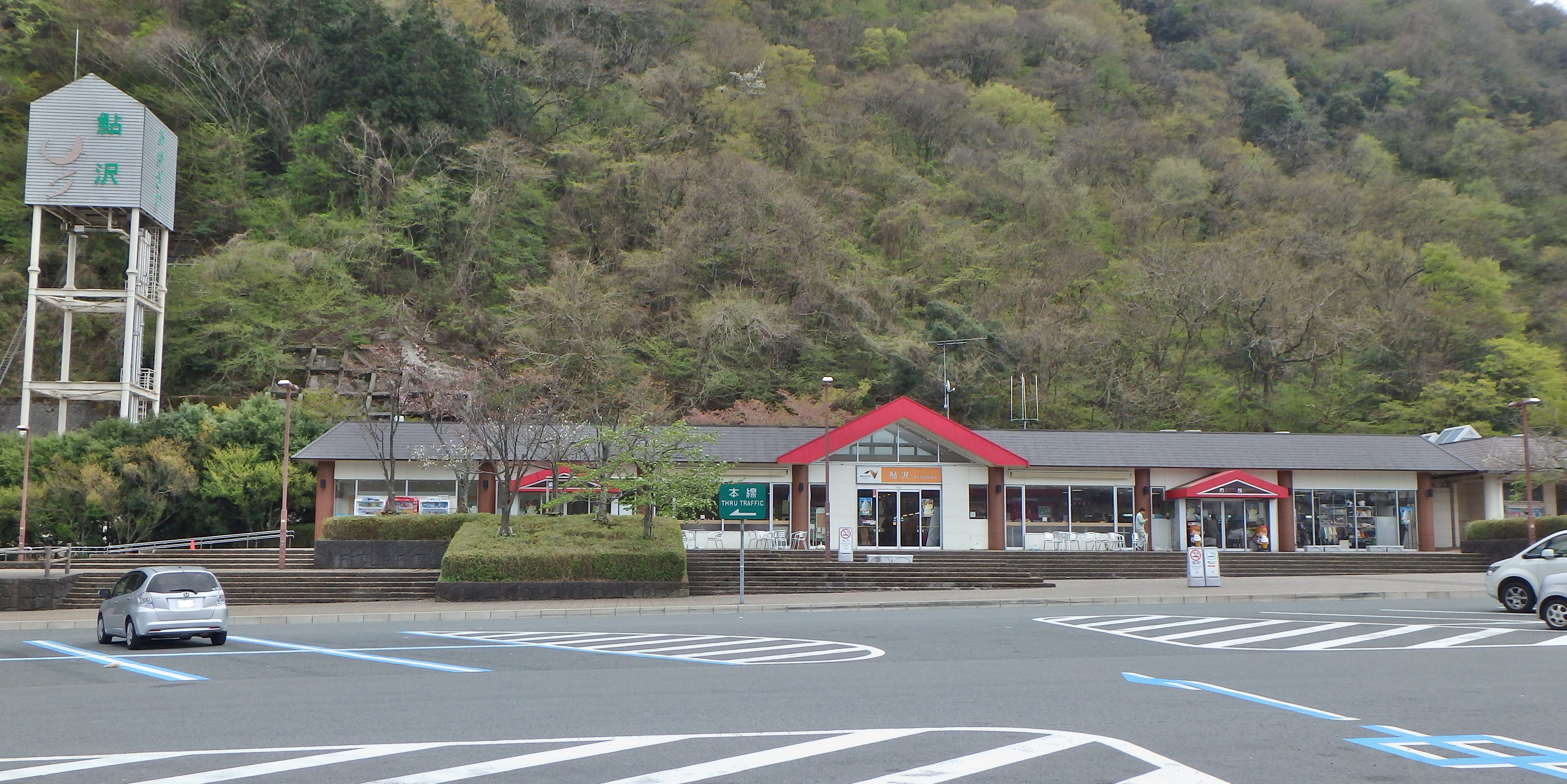 Ayuzawa Parking Area for Tokyo,Kanagawa prefecture,Japan